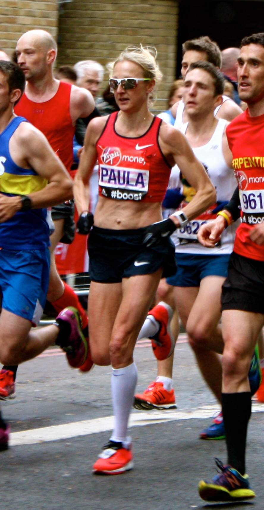 Paula Radcliffe running in the London Marathon 2015